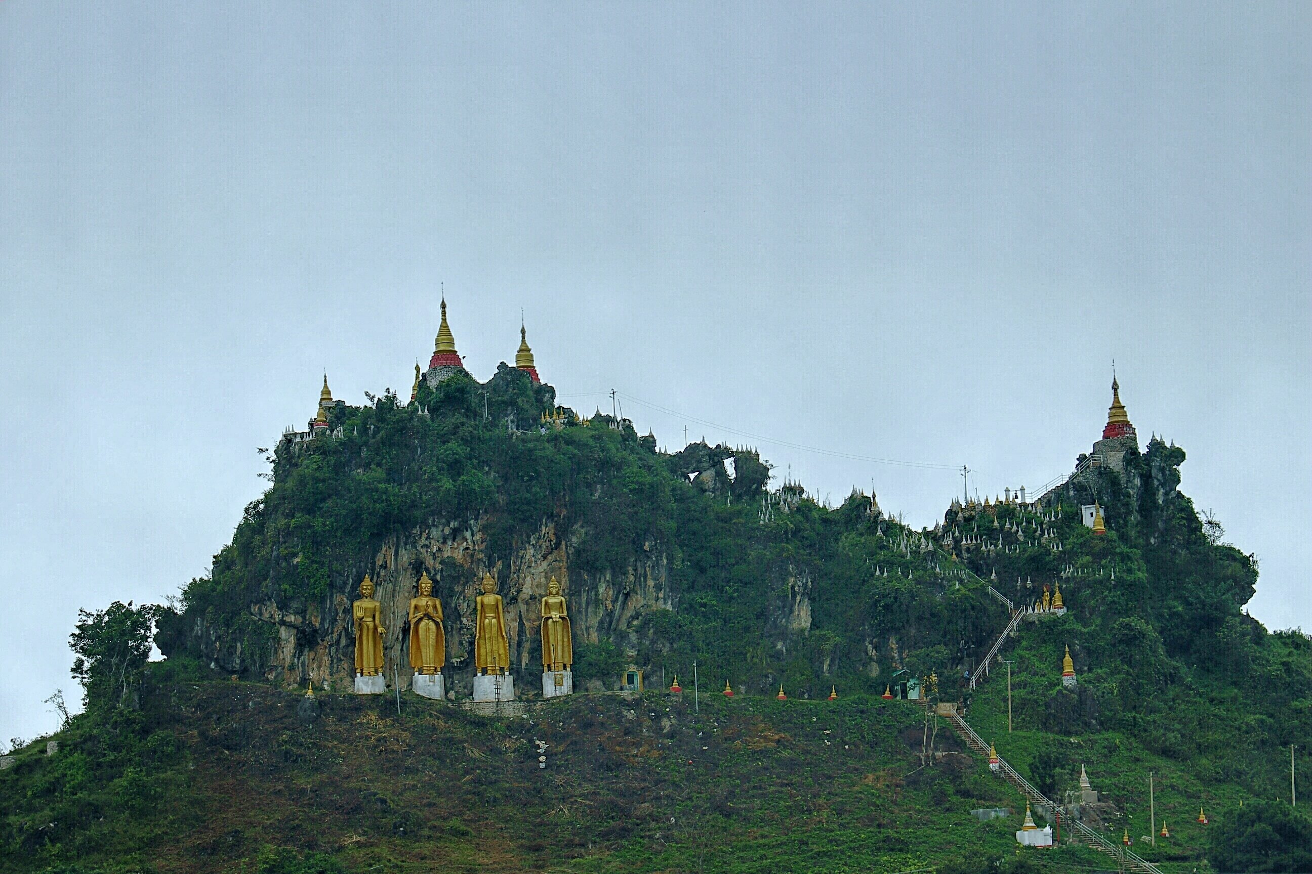 Mein Ma Ye Hill from Taunggyi township remote view